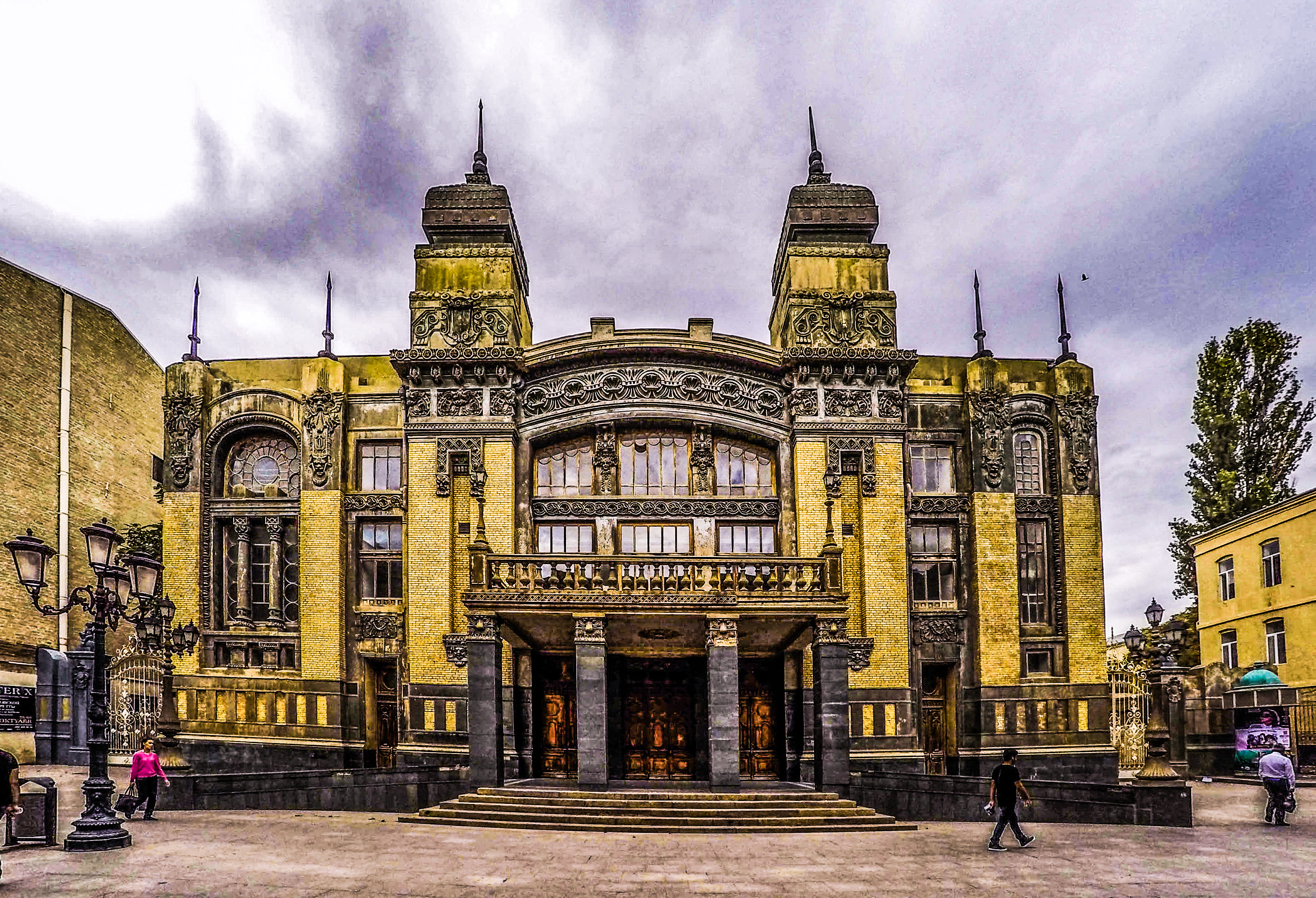 Azerbaijan State Academic Opera and Ballet Theatre main façade, 2015